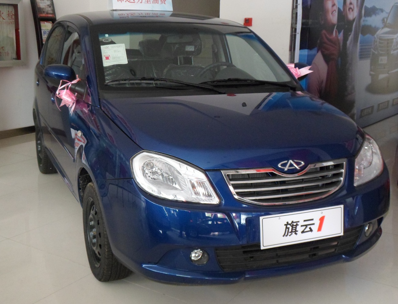 Chery Cowin 1 facelift photographed in Shanghai, China.